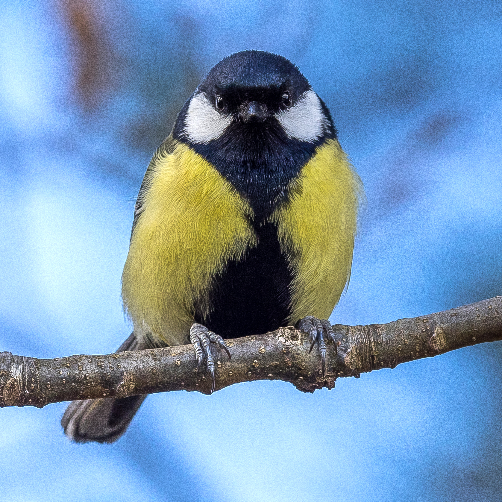 Talgoxe, Great tit, Parus major, around Vaxholm, Sweden